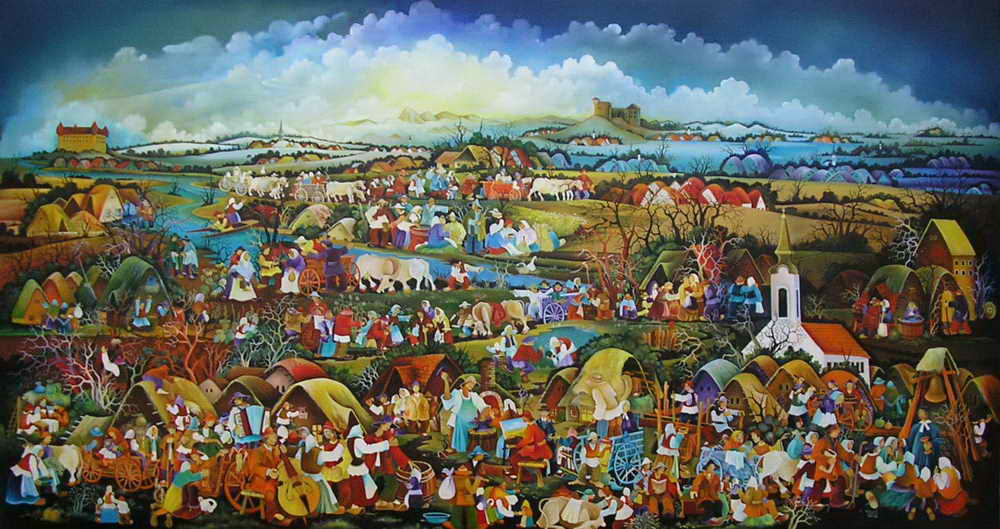 Painting depicting 200 years of Serbian village of Kovacica